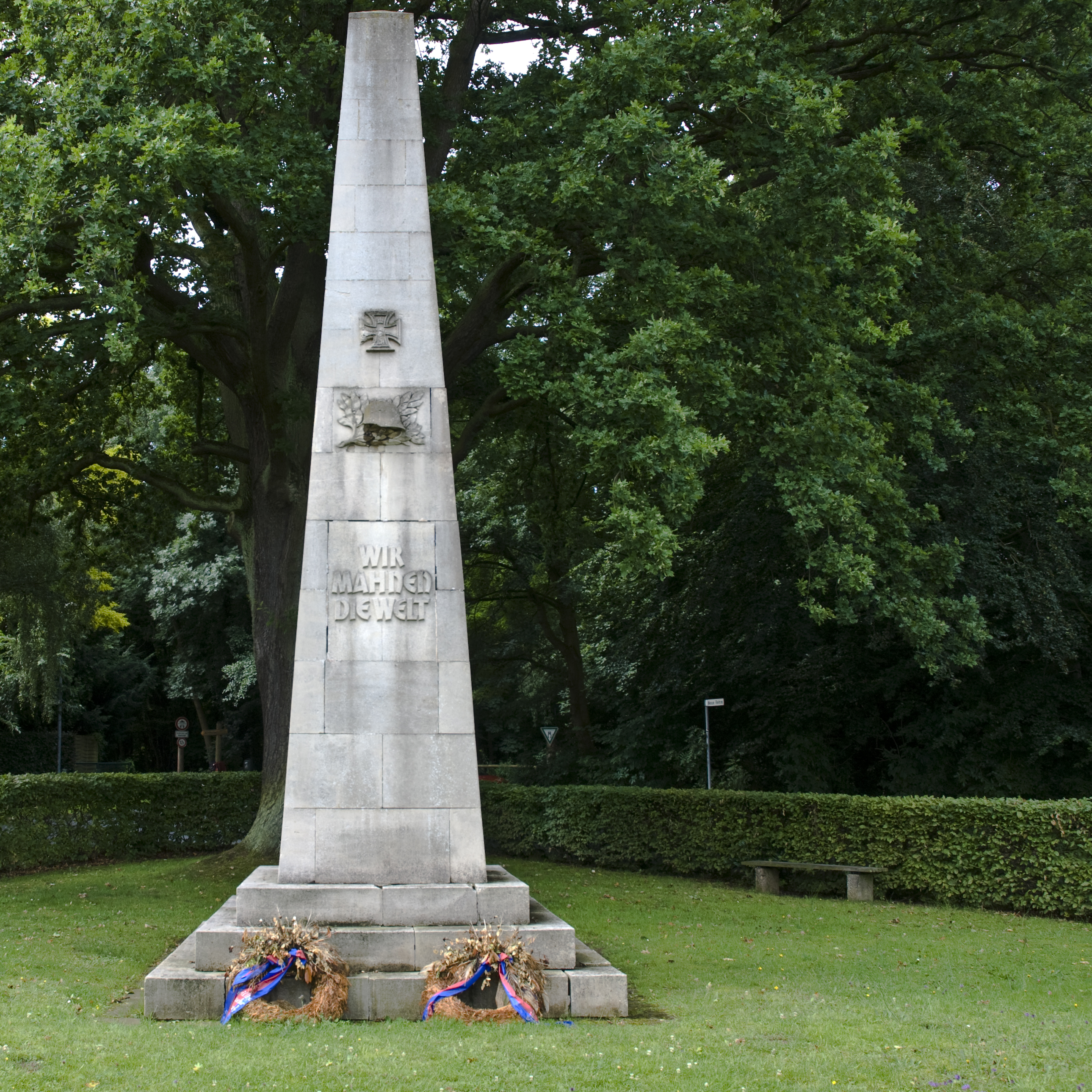 War memorial in Egestorf (Deister)